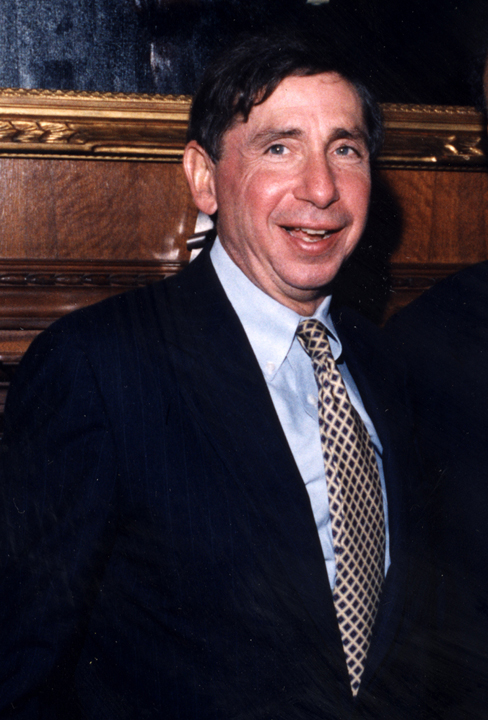 Michael "Mickey" Kantor, U.S. Secretary of Commerce